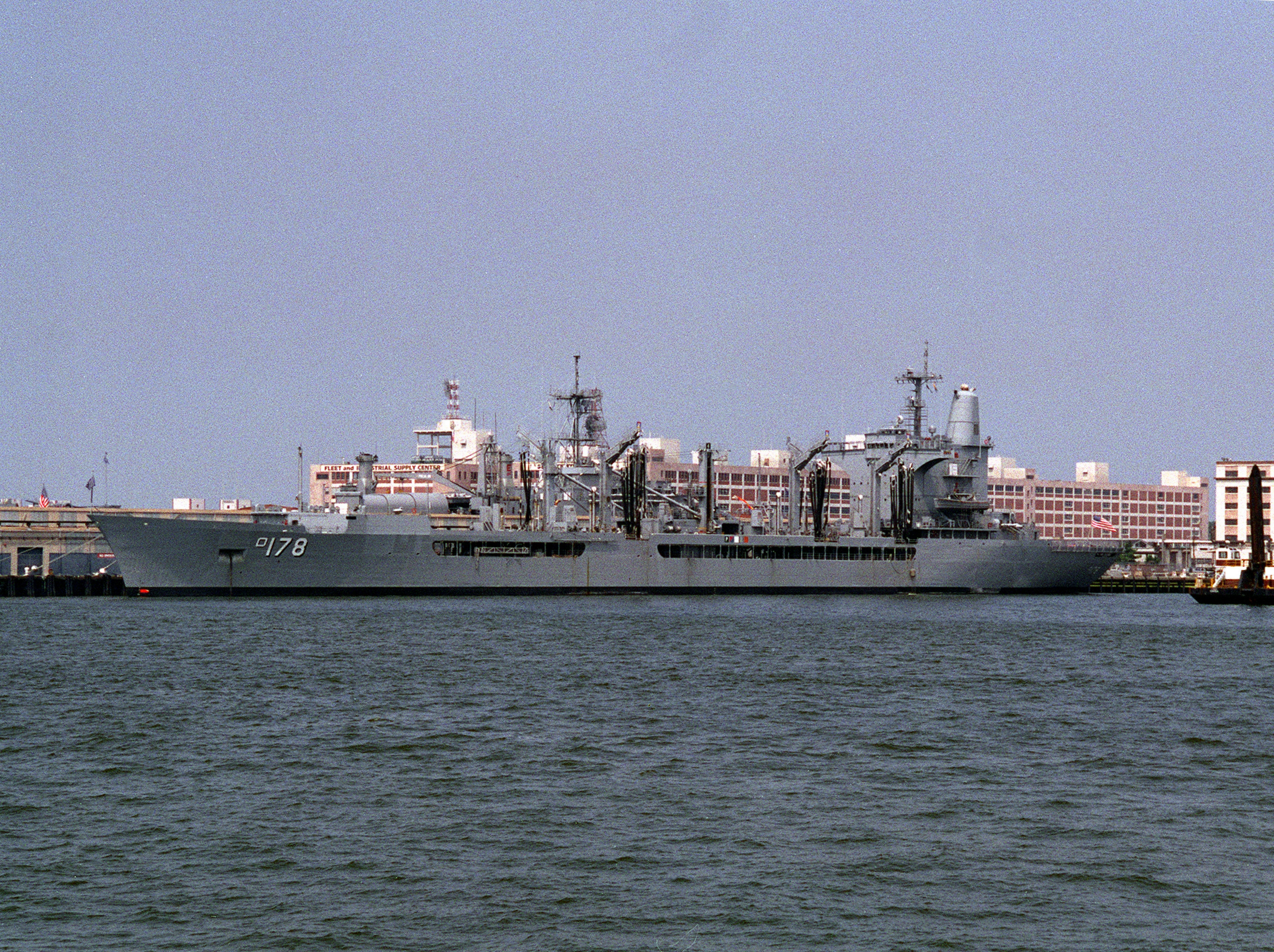 The U.S. Navy fleet oiler USS Monongahela (AO-178) moored to pier 3 at Naval Station Norfolk, Viginia (USA), on 4 July 1993. The oiler's hull had been lengthened to increase fuel capacity.